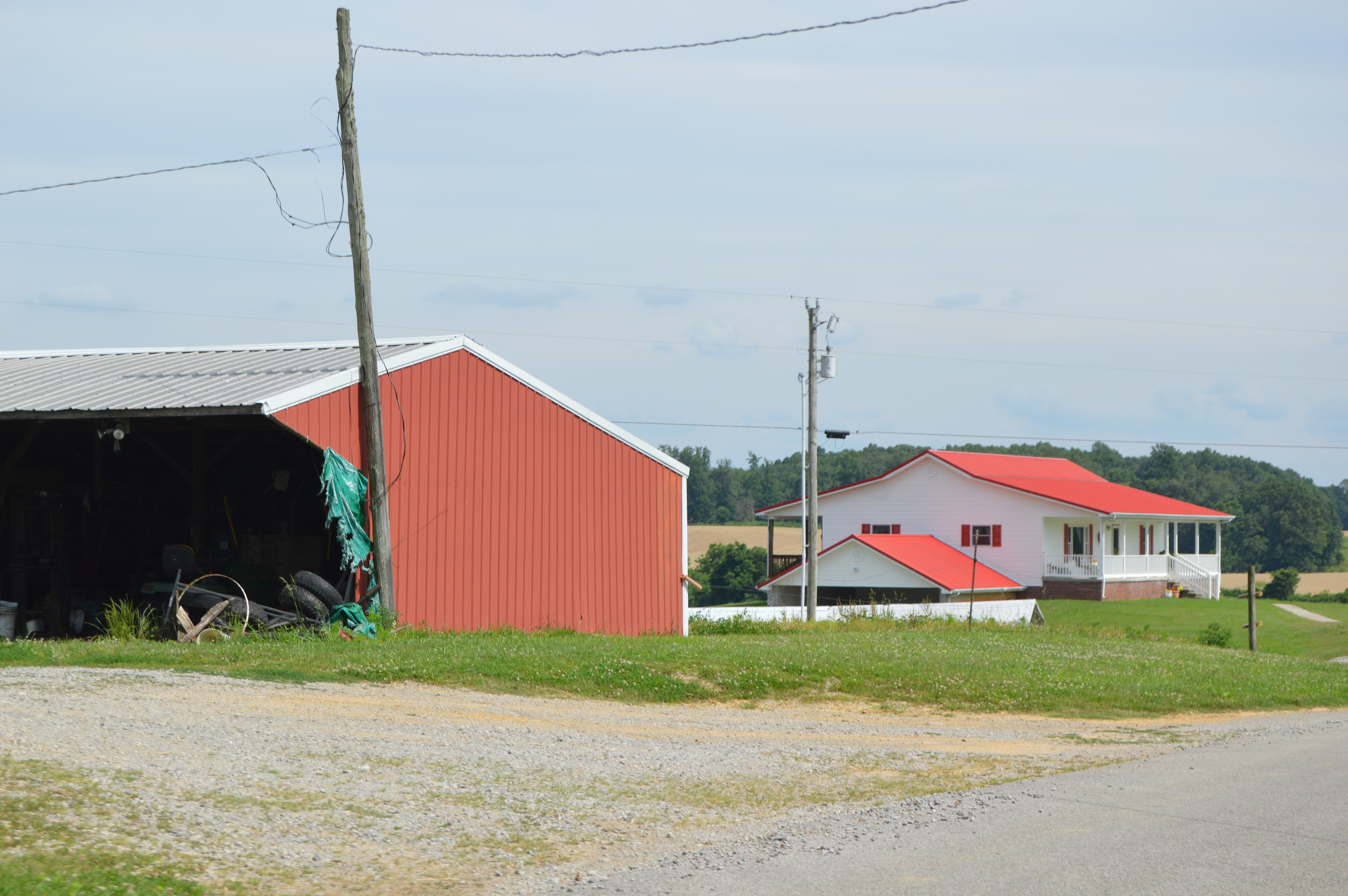 A farm complex on Kentucky Route 1281 at the location known as Decide, northwest of Albany in Clinton County, Kentucky, United States.